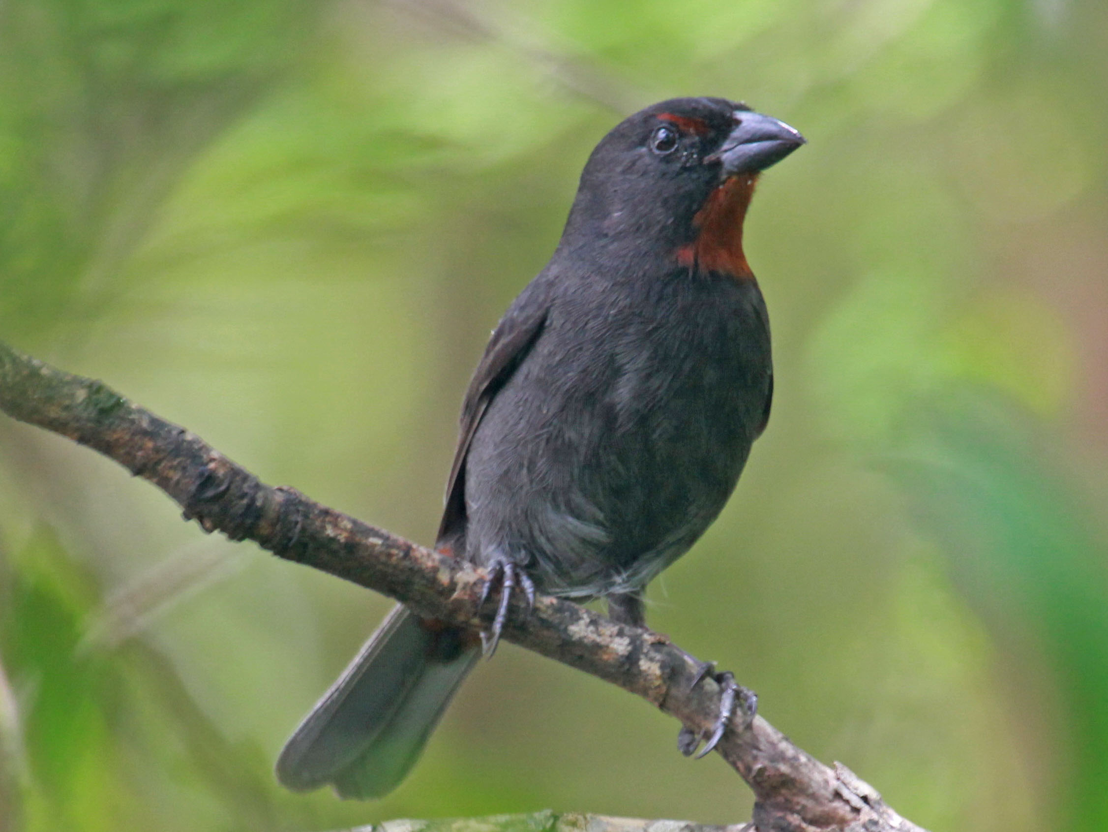 Lesser Antillean Bullfinch (Loxigilla noctis) on St. John Island, US Virgin Islands. Adult male.